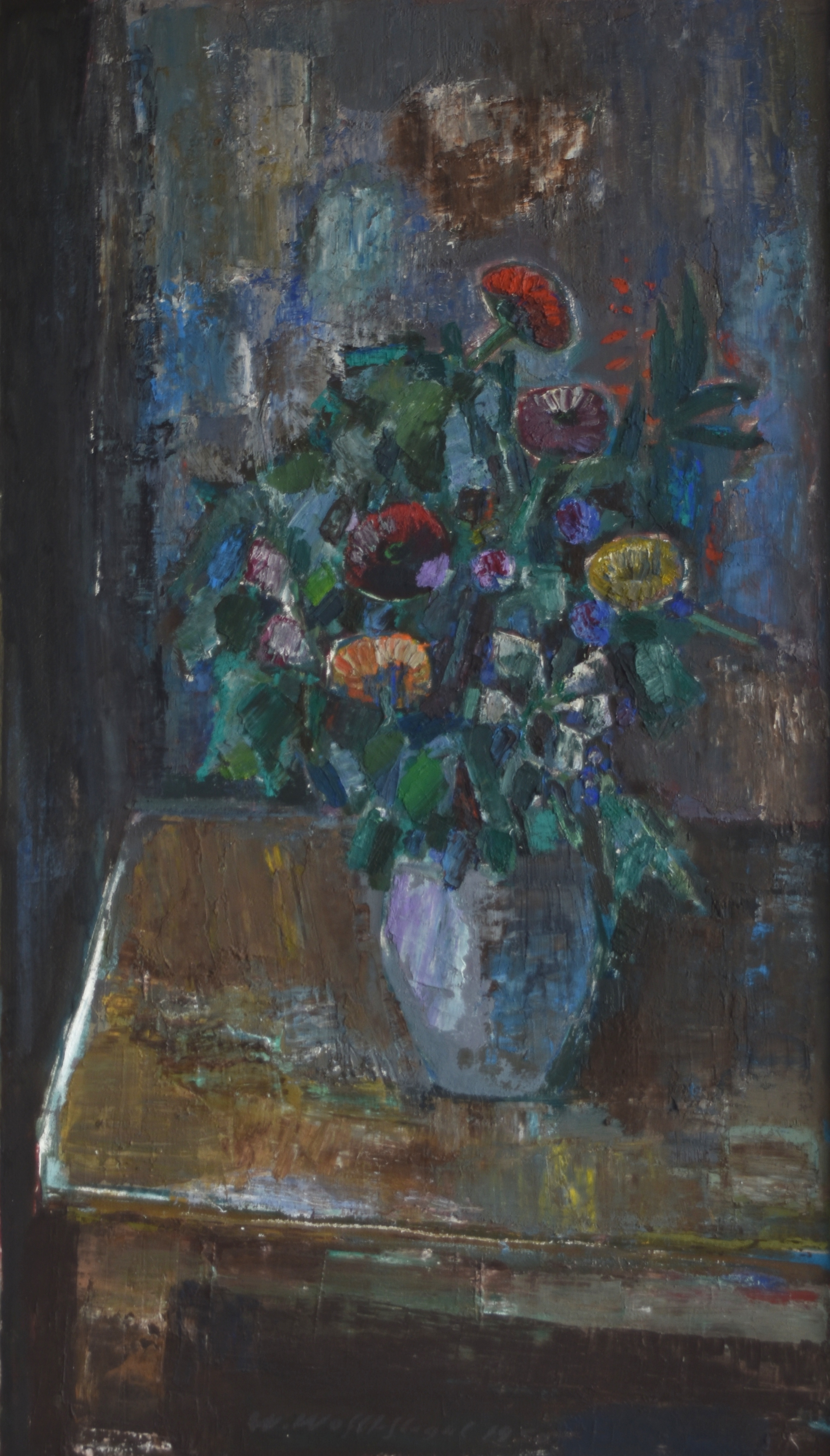 PAinting, 1950, by Walter Wohlschlegel